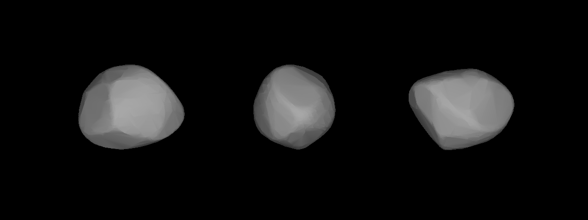 A three-dimensional model of 129 Antigone that was computed using light curve inversion techniques.